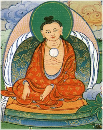 Melong Dorje (1243-1303), Nyingma practitioner